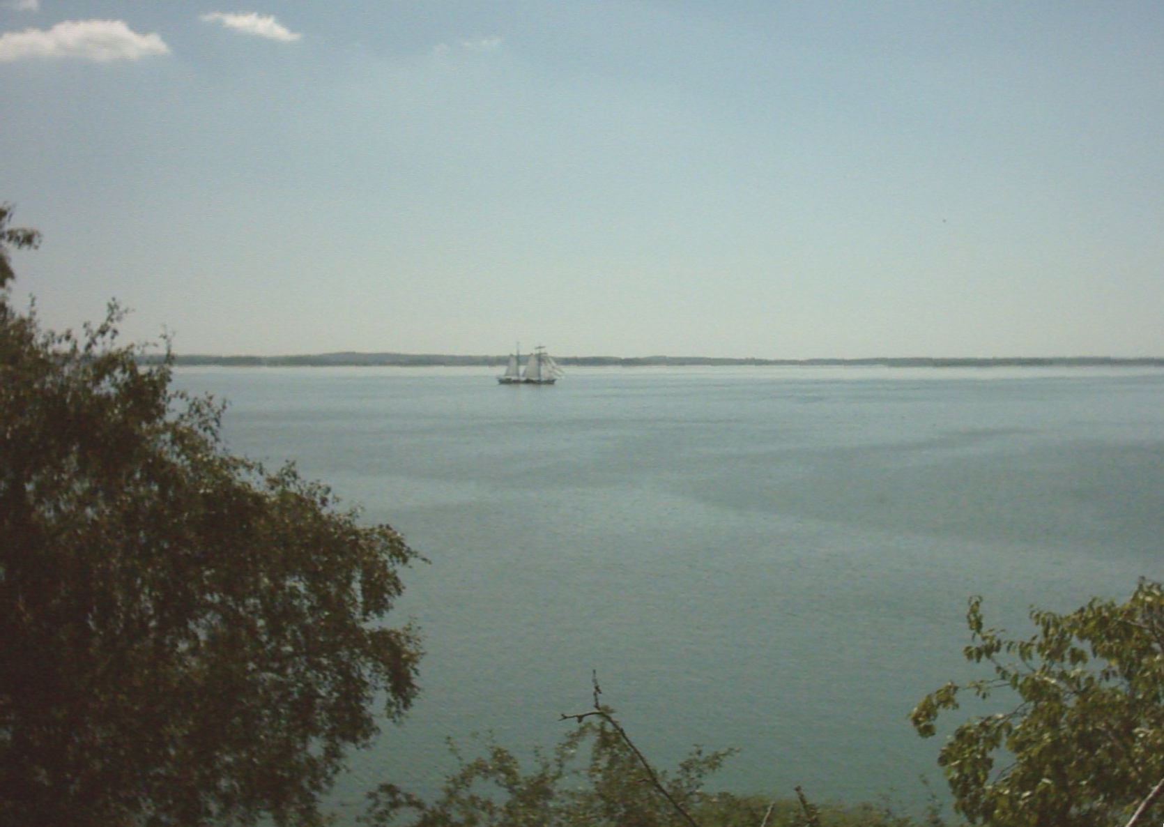 View from hill Loddiner Höft in Lodding, Mecklenburg-Vorpommern, Germany on Island Usedom the Achterwasser.